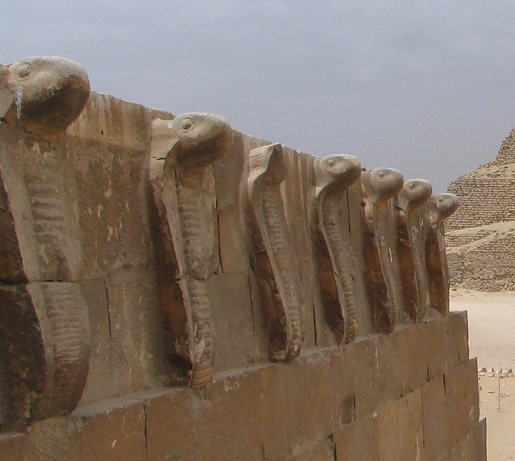 Cobra frieze on the wall of the sourthern tomb of the Djoser Pyramid (Detail)